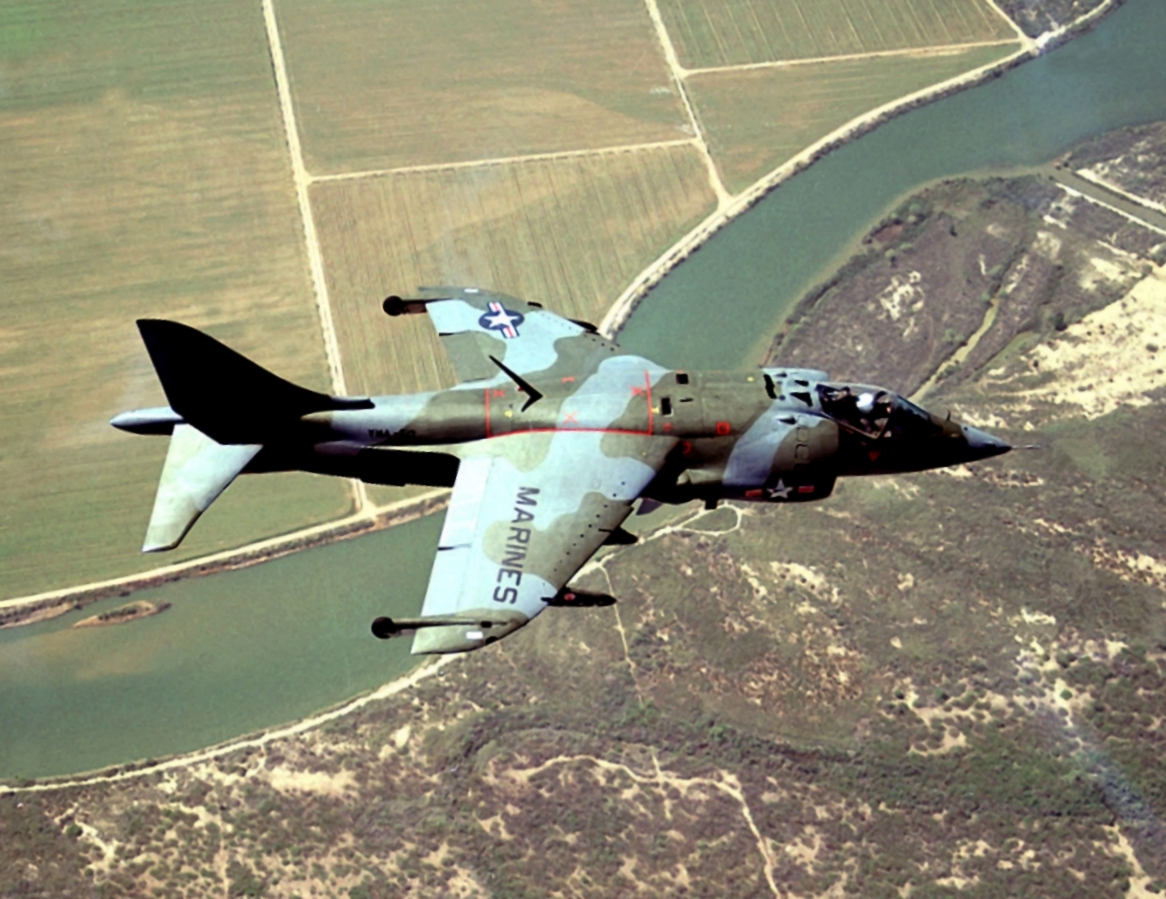 A U.S. Marine Corps Hawker Siddeley AV-8A Harrier aircraft from Marine Attack Squadron VMA-513 Flying Nightmares in flight in 1974.